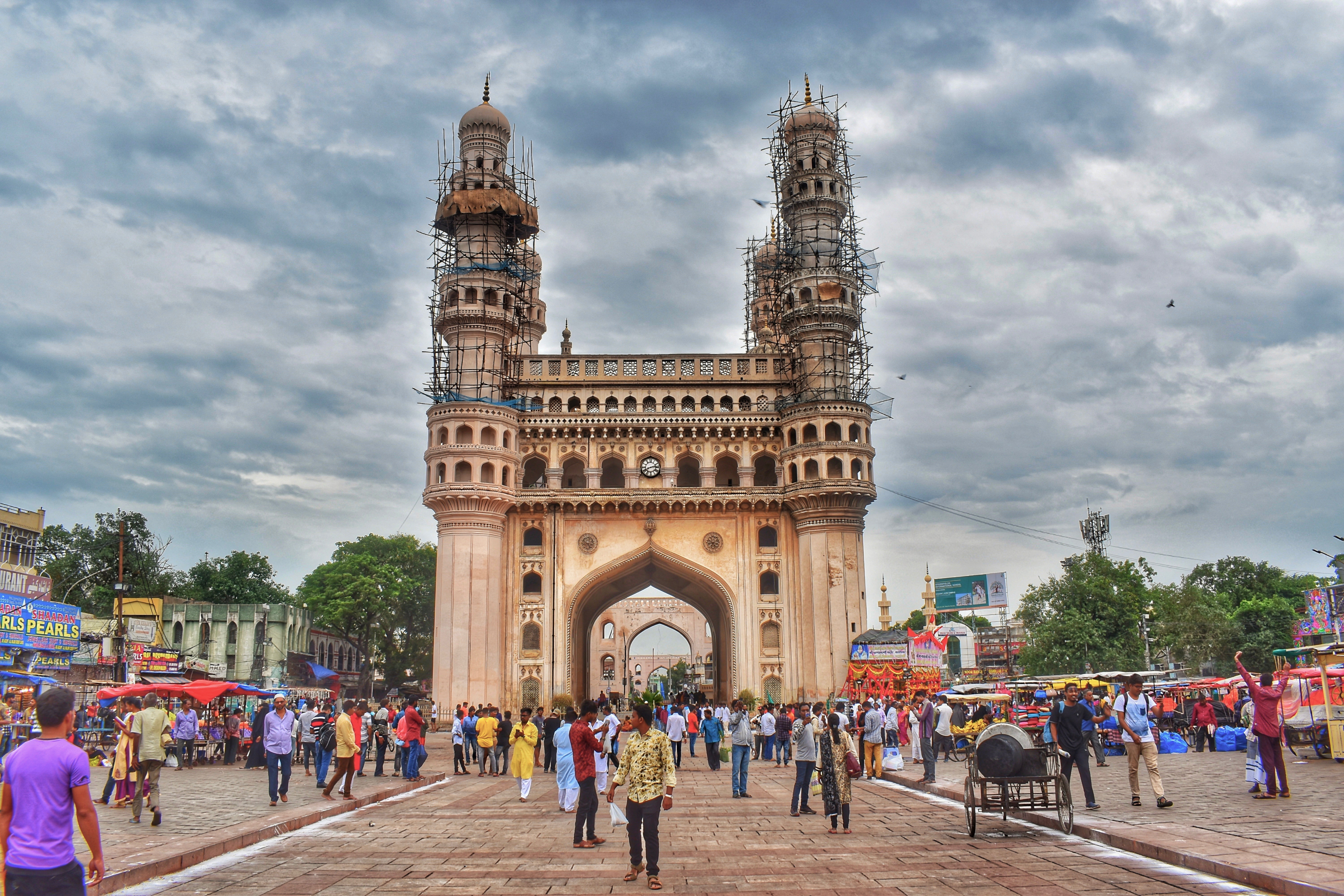 The Charminar, constructed in 1591, is a monument and mosque located in Hyderabad, Telangana, India. The landmark has become known globally as a symbol of Hyderabad and is listed among the most recognized structures in India.